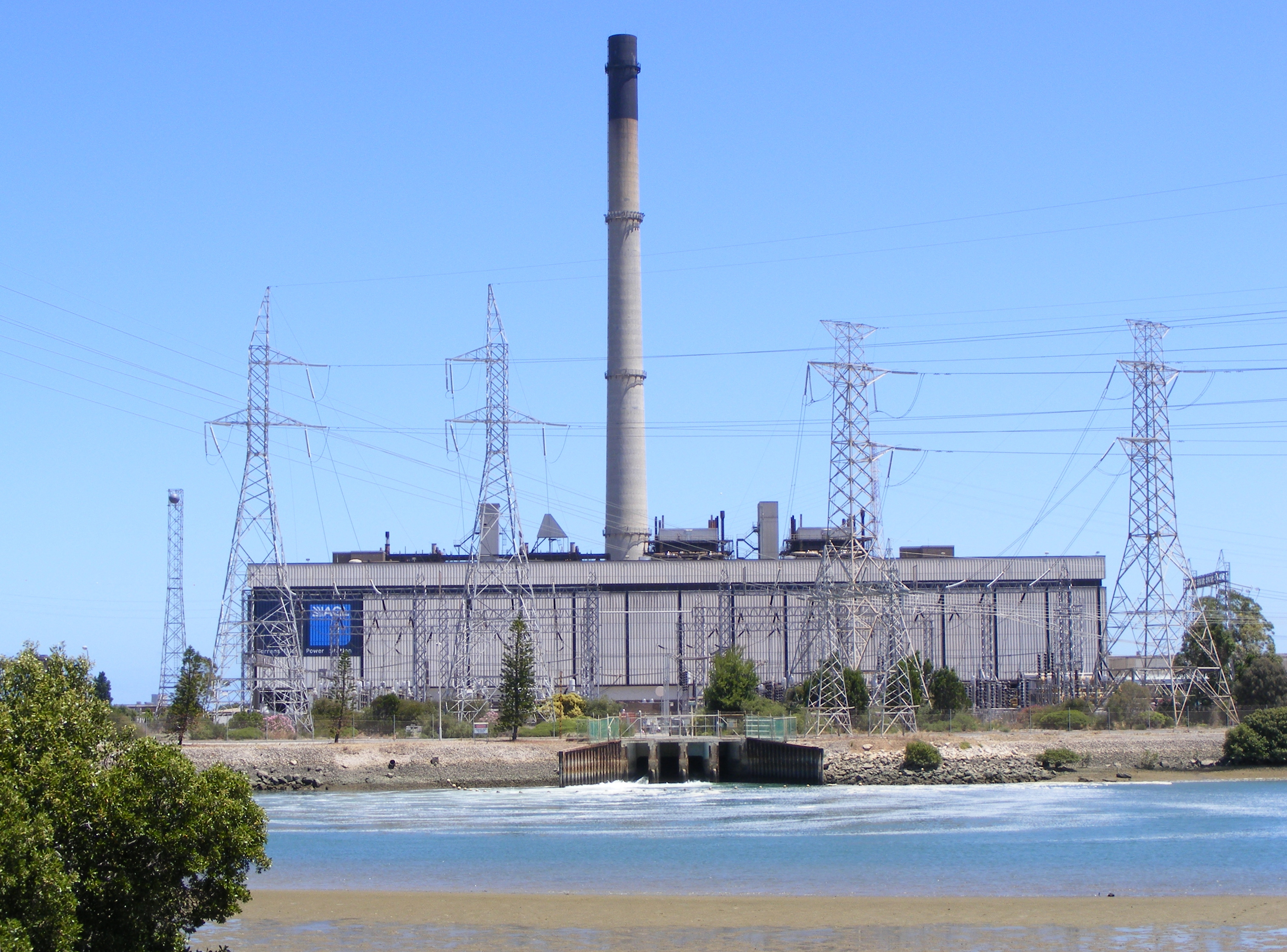 Seawater outlet of Torrens Island power station. On Torrens Island, Adelaide, South Australia